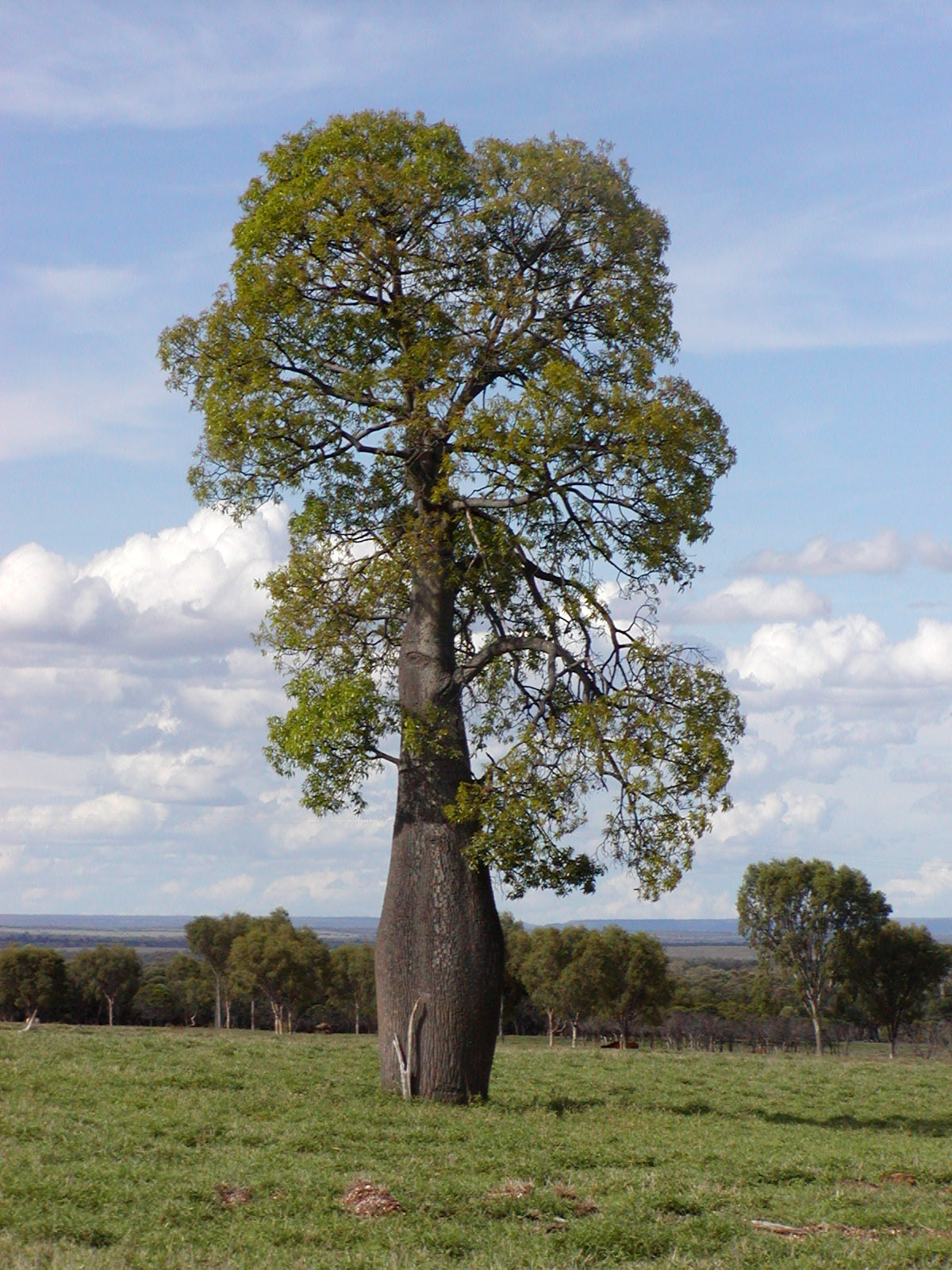 Brachychiton rupestris, a member of the Sterculiaceae, is commonly referred to as the Queensland Bottle Tree, Queensland-Flaschenbaum, or the Narrowleaf Bottle Tree or Kurrajong. Sometimes referred to as boab or baobab, which in Australia normally refers to Adansonia gregorii. The common name refers to the characteristic trunk of the tree, which can reach a 2 m diameter. The height of the tree is less impressive, with a maximum height of 18-20 m, smaller in cultivation; the canopy spans 5-12 m in diameter. The characteristic bottle shape develops in approximately five to eight years. The species is endemic to Central Queensland to northern New South Wales and this individual imaged near Hughenden in December 2008. A significant amount of water can be stored between the inner bark and the trunk. The seeds, roots, stems, and bark can be used as food while the fibrous inner bark makes twine or rope and even woven together to make fishing nets.